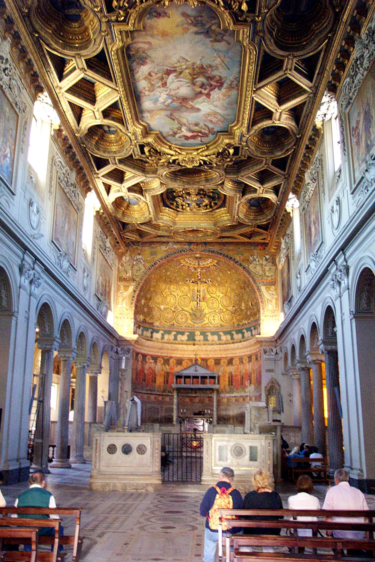 San Clemente